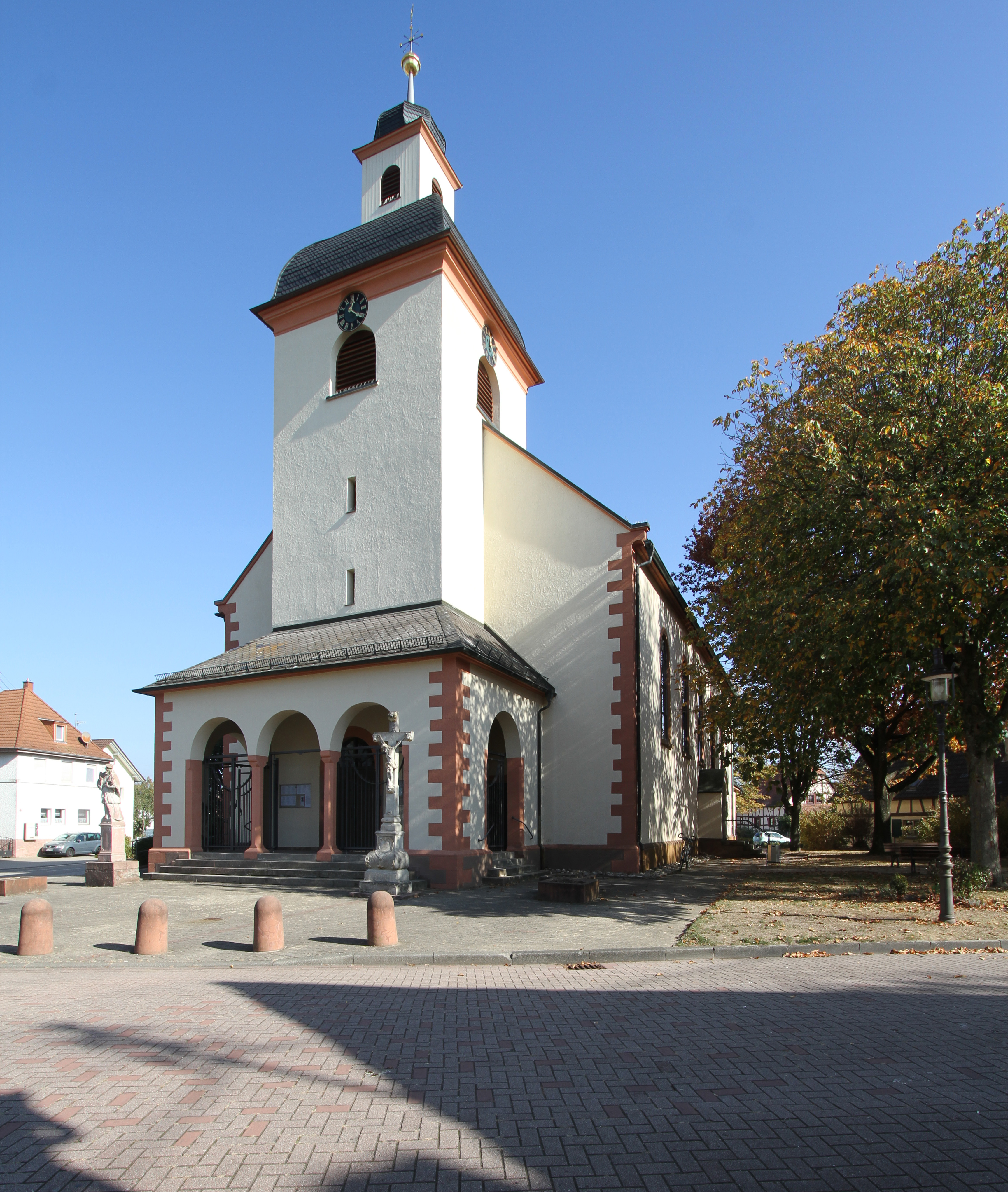 Church of Saint Giles in Rastatt-Ottersdorf.